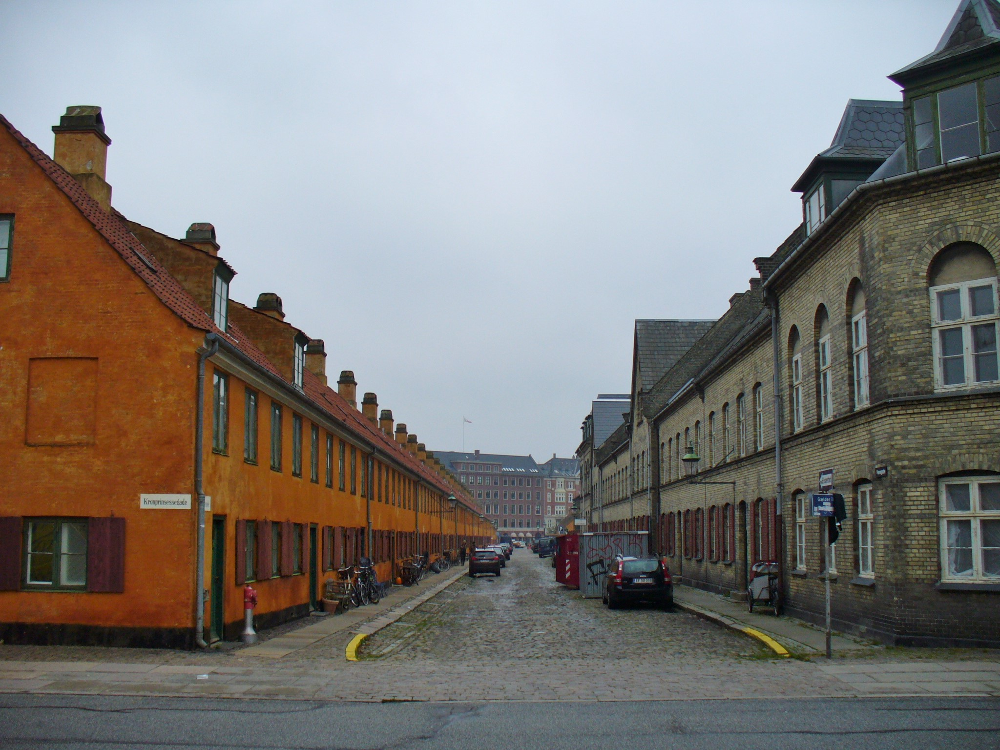 The street Haregade at Kronprinsessegade in the area Nyboder in Copenhagen.